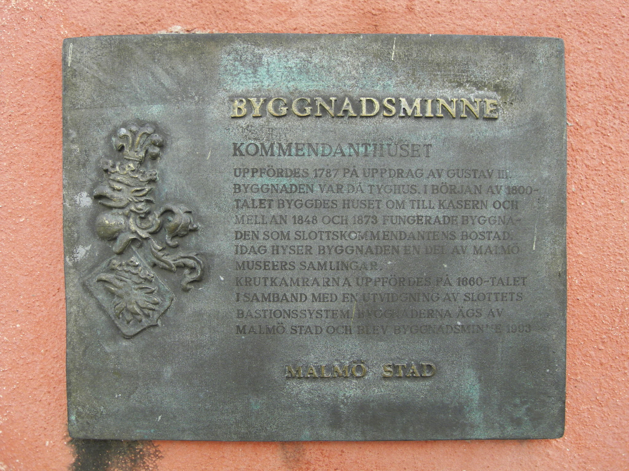 This is the sign plate of the Commandant House (in Swedish Kommenanthuset) with its description in Swedish, located to the left of the entrance. The building is situated in the city of Malmo. The picture is taken 11 September 2013.